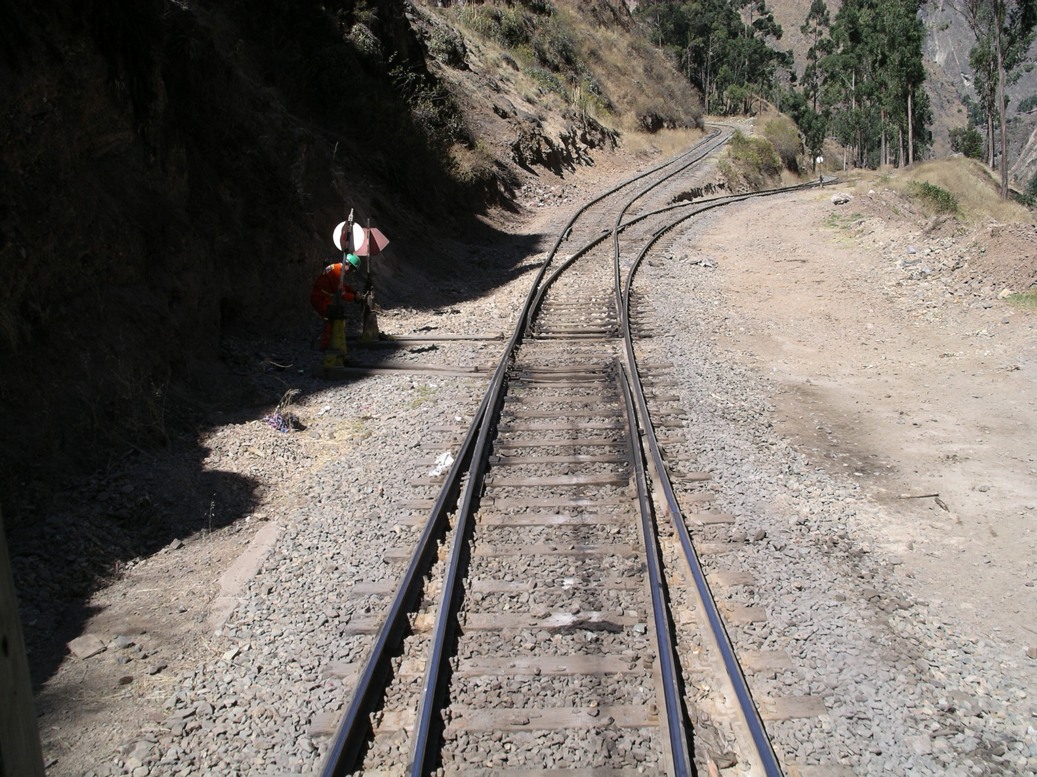 A setting-back track on the way from Lima to Huancayo near Morococha.